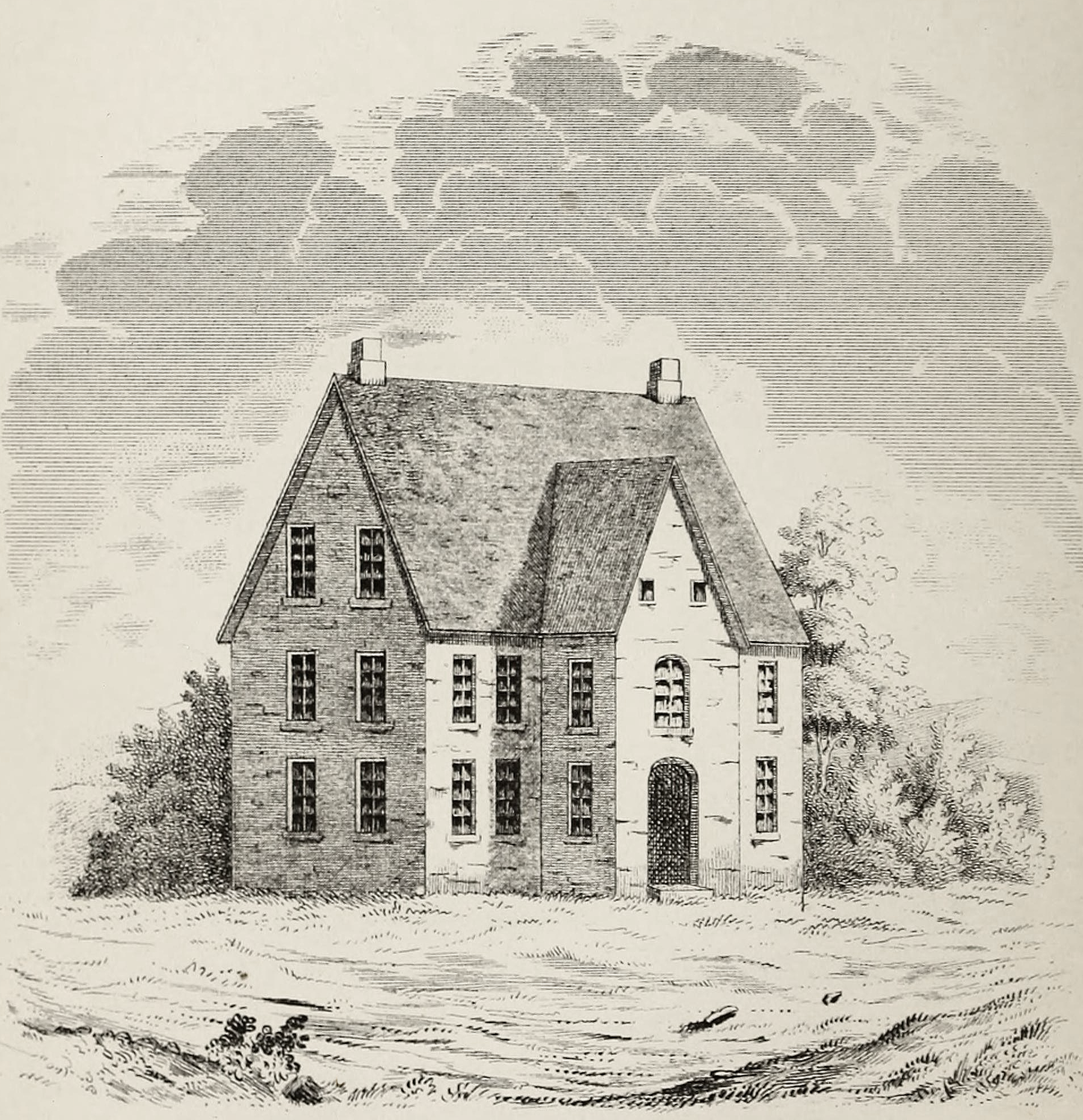 The John Pynchon homestead known as the Old Fort as it appeared in a nineteenth-century history book. Constructed in 1660, the brick house was razed in 1831 for the construction of a more modern structure. Its current portrayal is based on a sketch by the city's Reverend William Bourne Oliver Peabody.